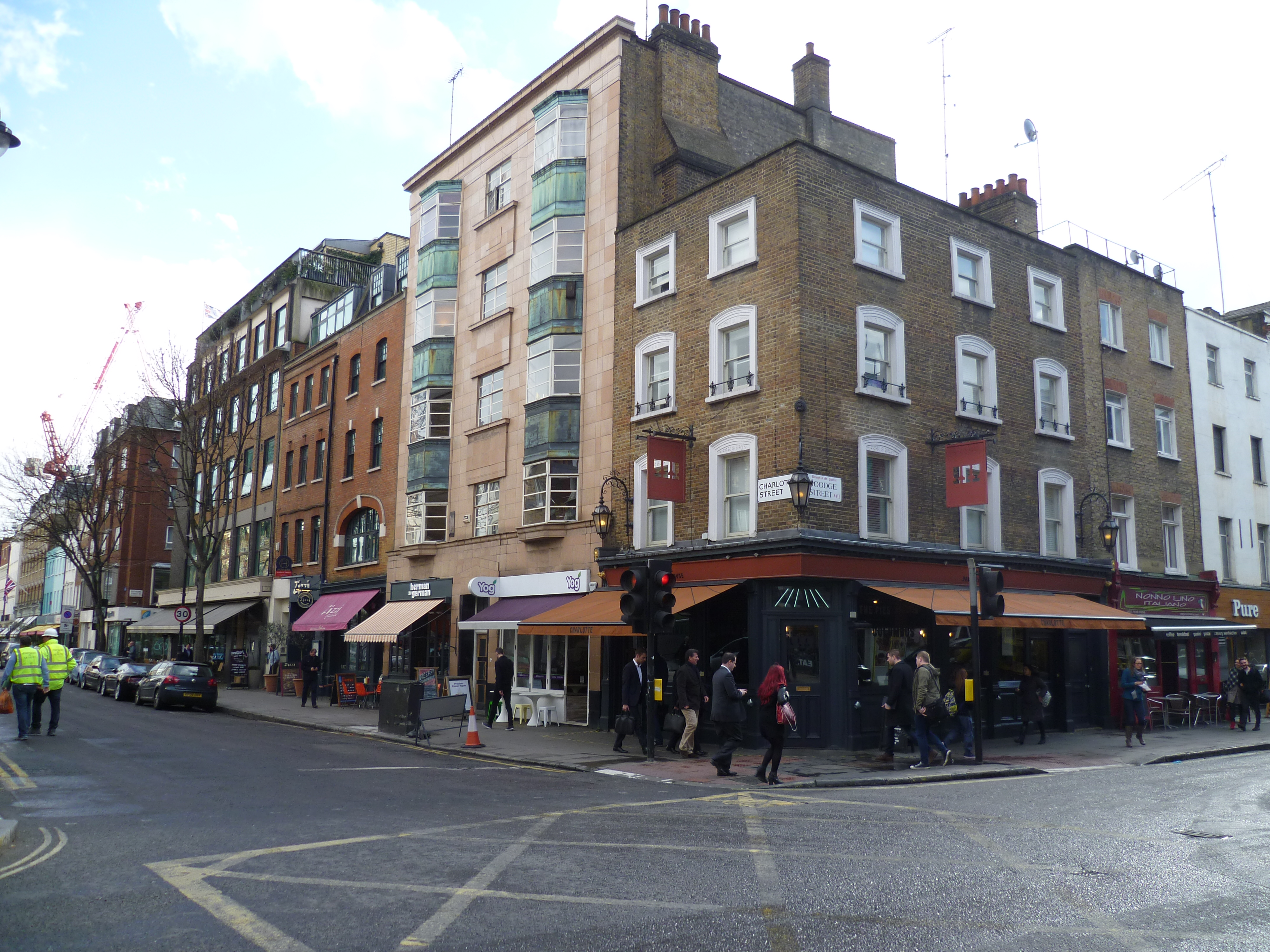 London